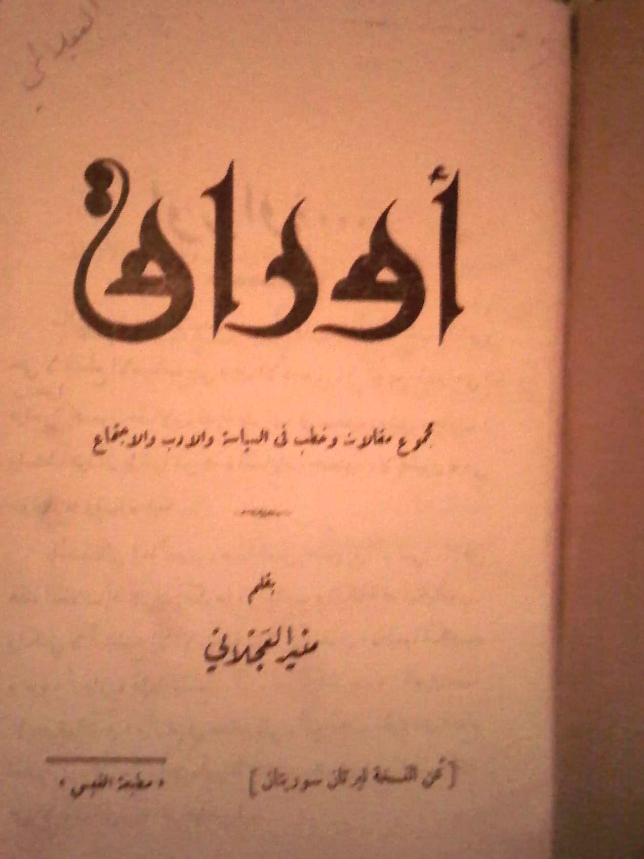 Dr Munir al-Ajlani's "Papers"